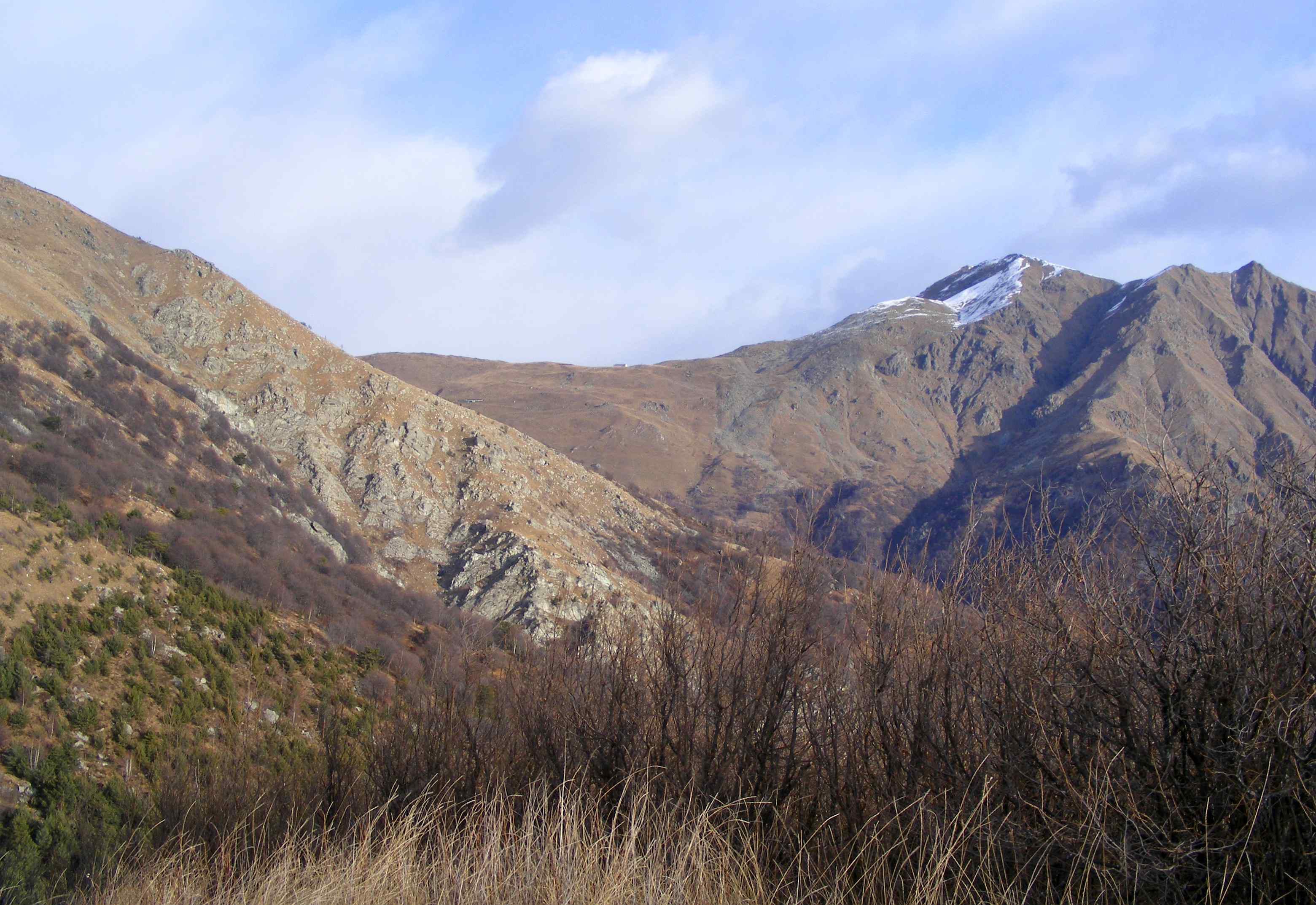 Colombardo pass (TO, Italy, Graian Alps) from Truc Castelletto (Condove)